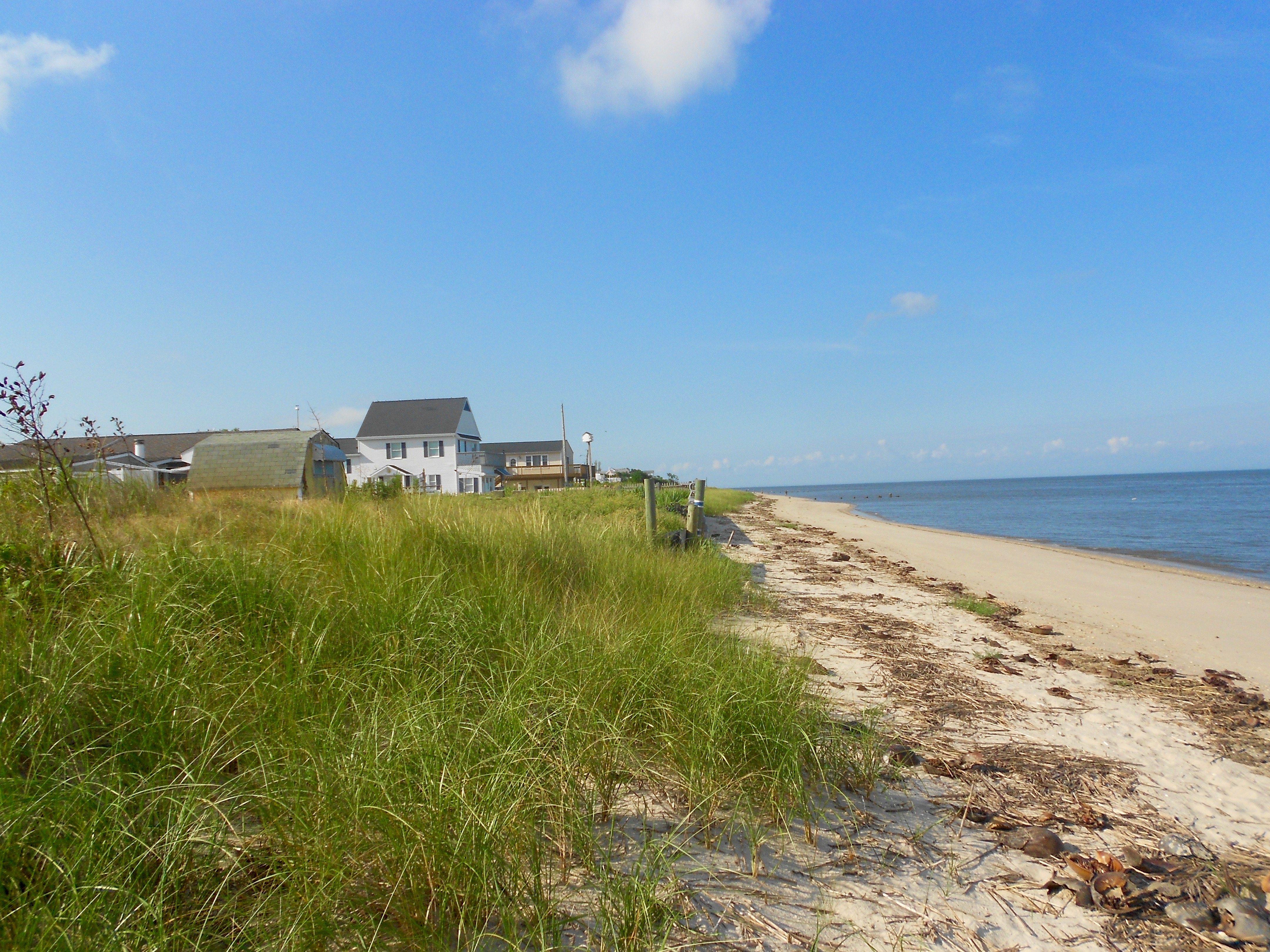 The beach on Delaware Bay in Miami Beach (no joke), an unincorporated community in Loer Township, Cape May County, New Jersey